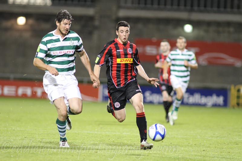 Ken Oman (left) in action for Shamrock Rovers F.C.